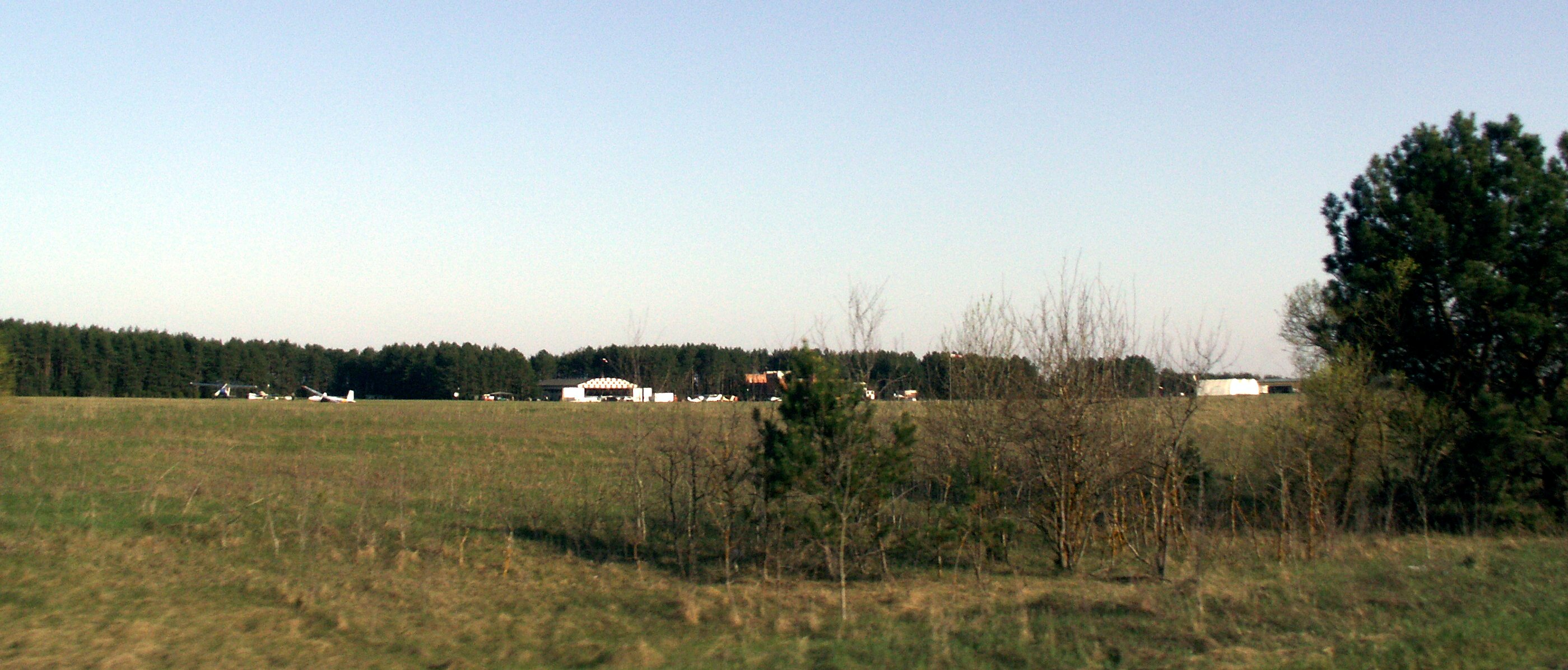 Paluknys Airport, Trakai district, Lithuania